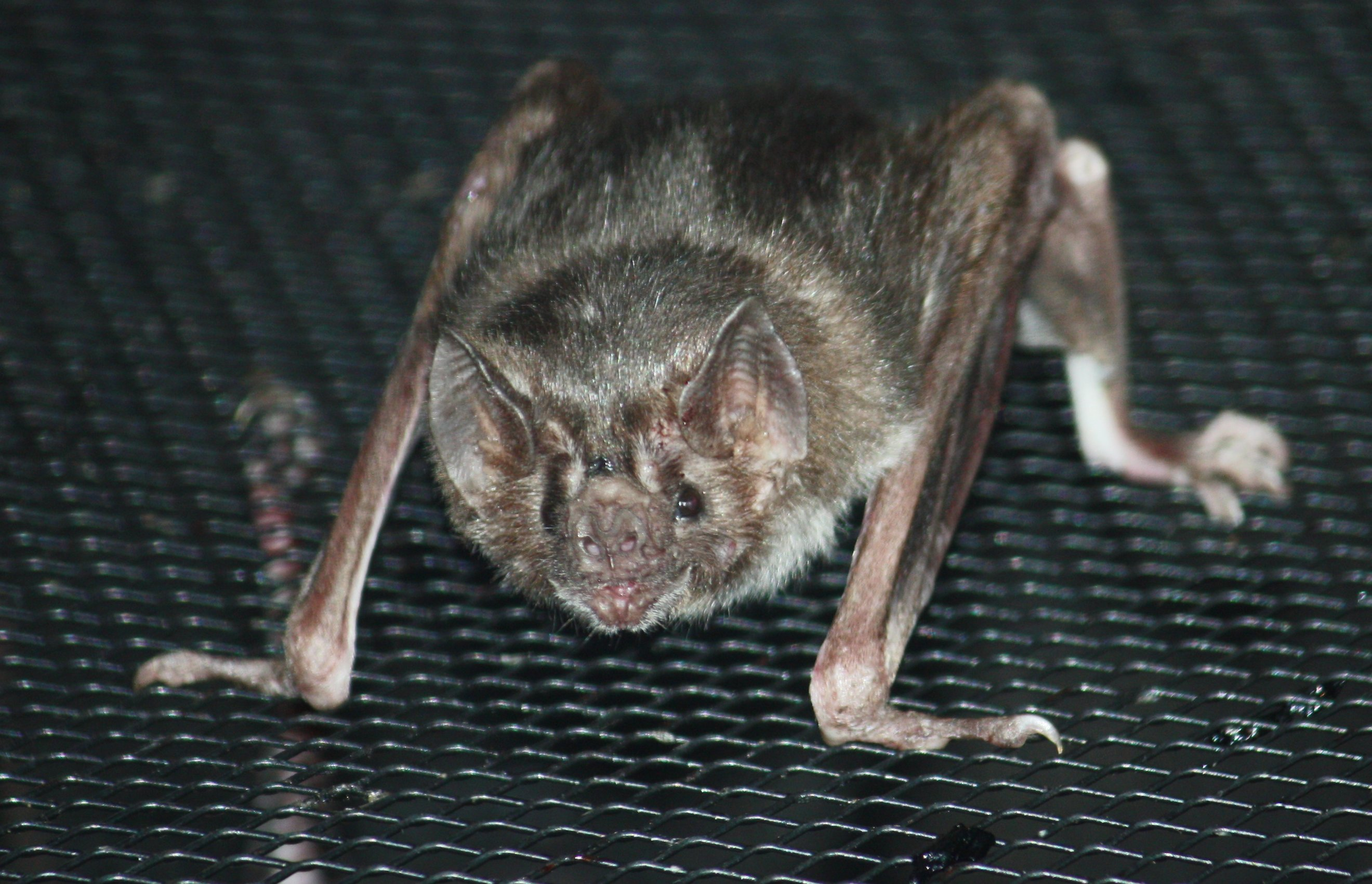 Vampire Bat Desmodus rotundus at the Louisville Zoo